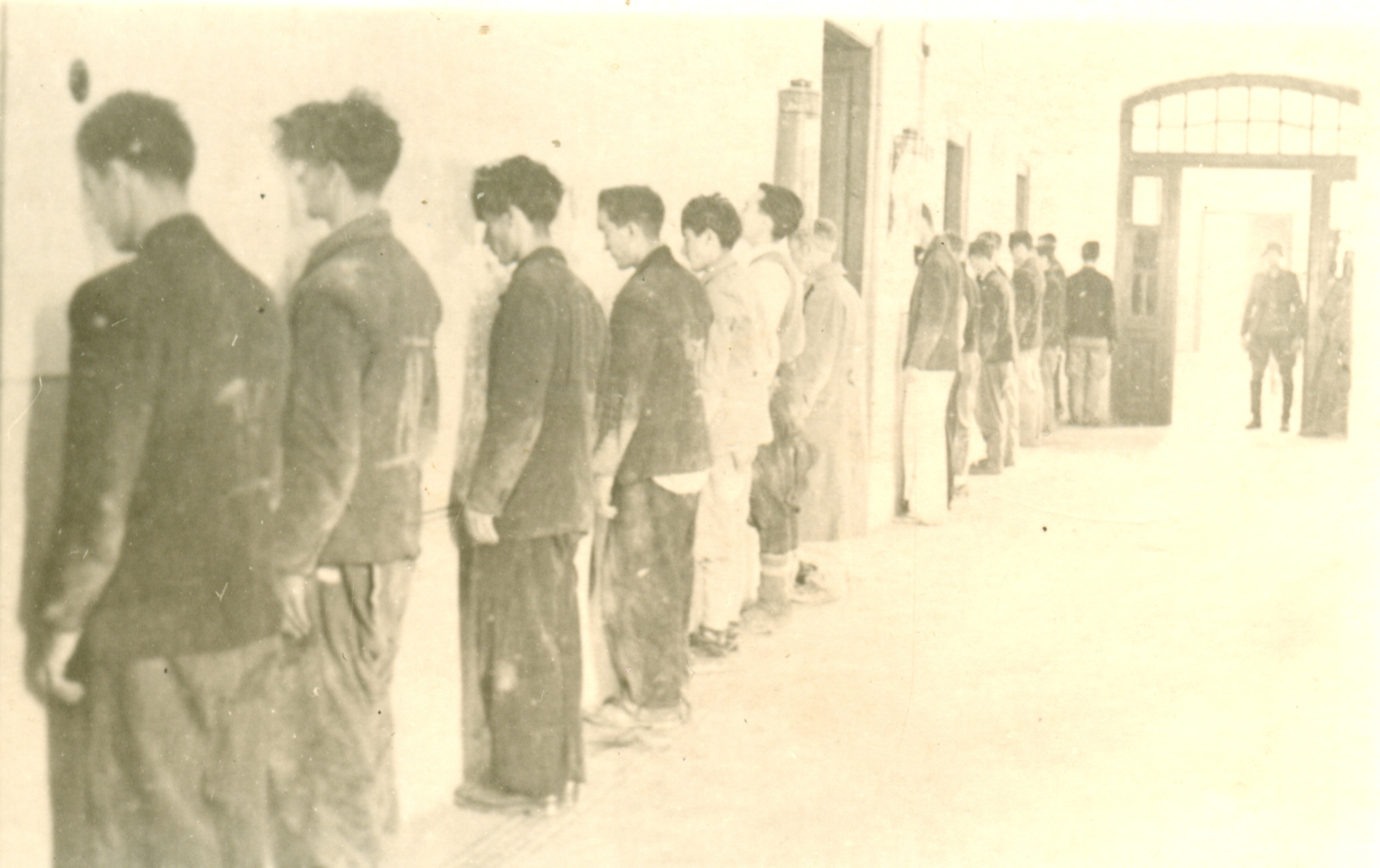 A German soldier lines up the prisoners Srpski (latinica): A German soldier lines up the prisoners